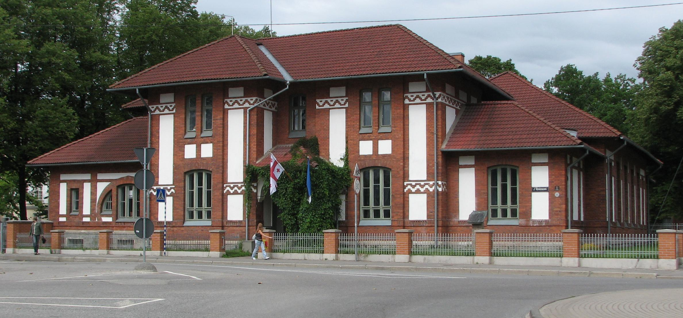 Building of Estonian Students' Society in Tartu. Architect Georg Hellat (1870–1943). In August 2008 a Georgian flag was hoisted besides Estonian to support Georgia in the South Ossetia war. The peace treaty between Finland and Russia was signed here in 1920.